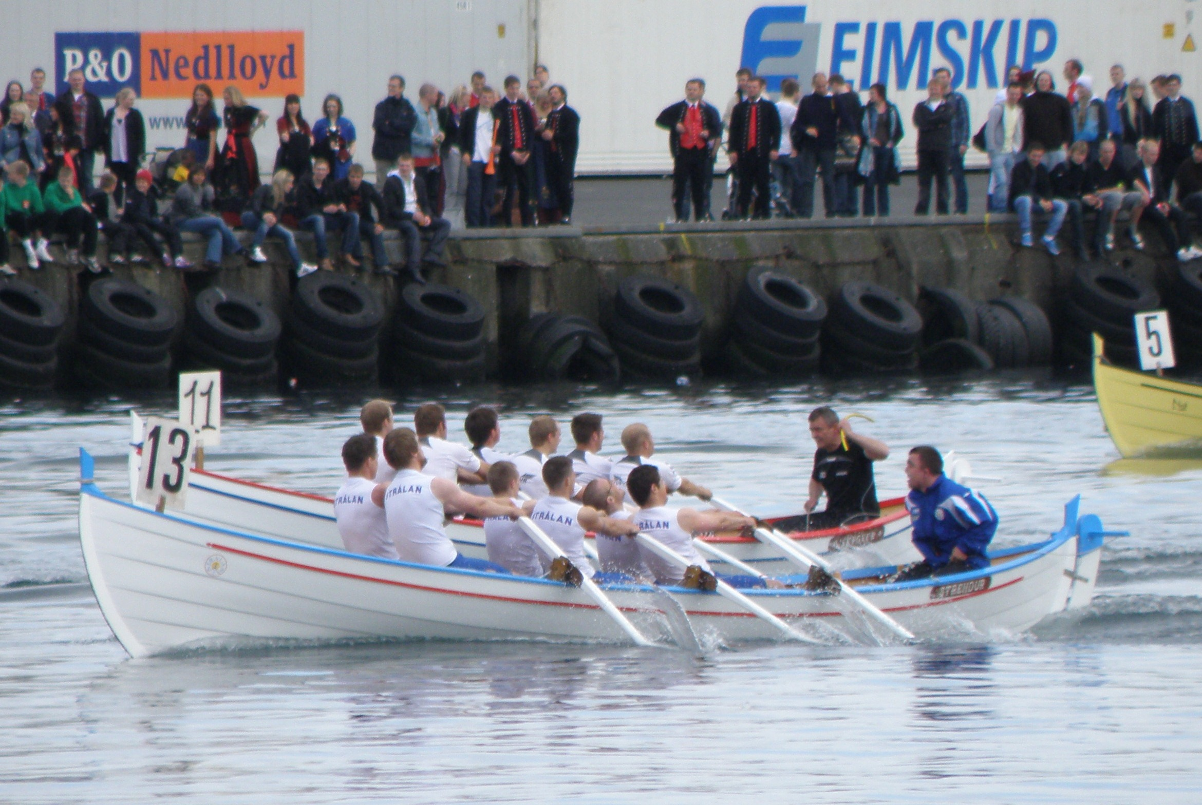 The Olavsoka Boat Race 2010. This is the category Men's 6-mannafor. The boat in the foreground is Strálan from Strendur in Eysturoy, Faroe Islands the other white boat behind it is Skúgvur from Sandavágur on Vágar island. There are several boat races held around the Faroe Islands through June and July, the Ólavsøka boat race in Tórshavn is the final one, always held on the eve of Olavsoka, which is on 28 July. The boats are built in the traditional way. These boats are built only for the boat races. The fishing boats are similar, but built stronger, often bigger and mostly with a house in the middle of the boat. The fishing boats have engines. The Faroese boats are quite similar to the Viking boats. Føroyskt: Ólavsøku kappróður 2010, 6-mannafør menn. Bert fáir bátar síggjast á myndini. Báturin fremst á myndini er Strálan av Strondum, hvíti báturin við reyðum stokkum og bláari rond er Skúgvur úr Sandavági.